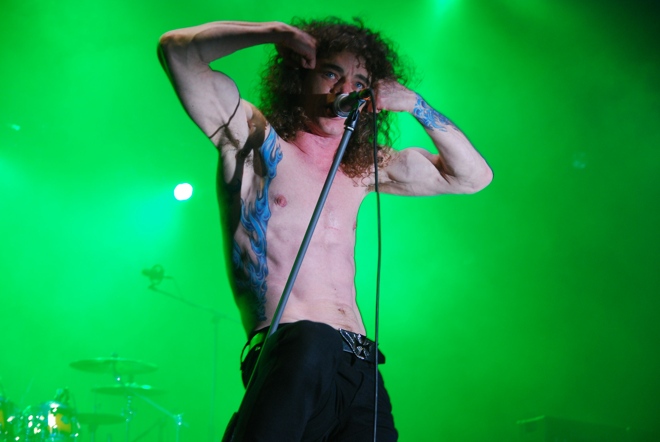 Bobby Ellsworth "Blitz" from Overkill during Metalmania 2008 festival